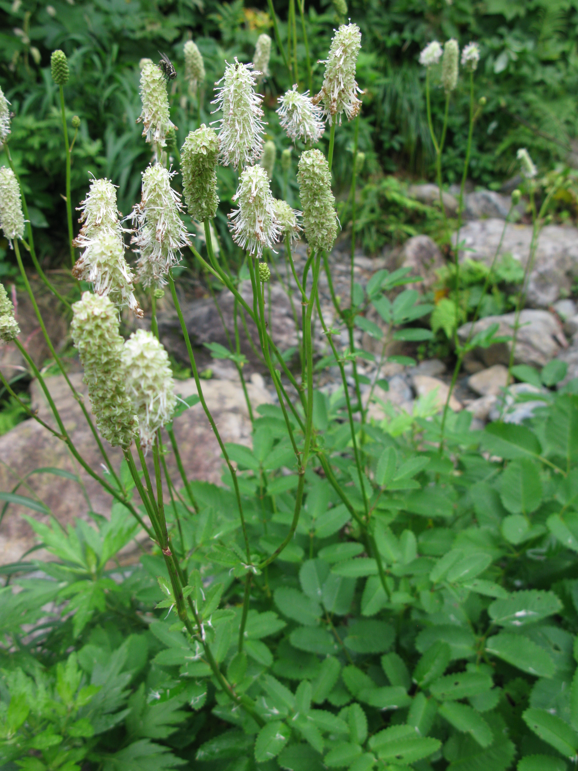 Sanguisorba albiflora, Mount Hayachine, Iwate pref., Japan